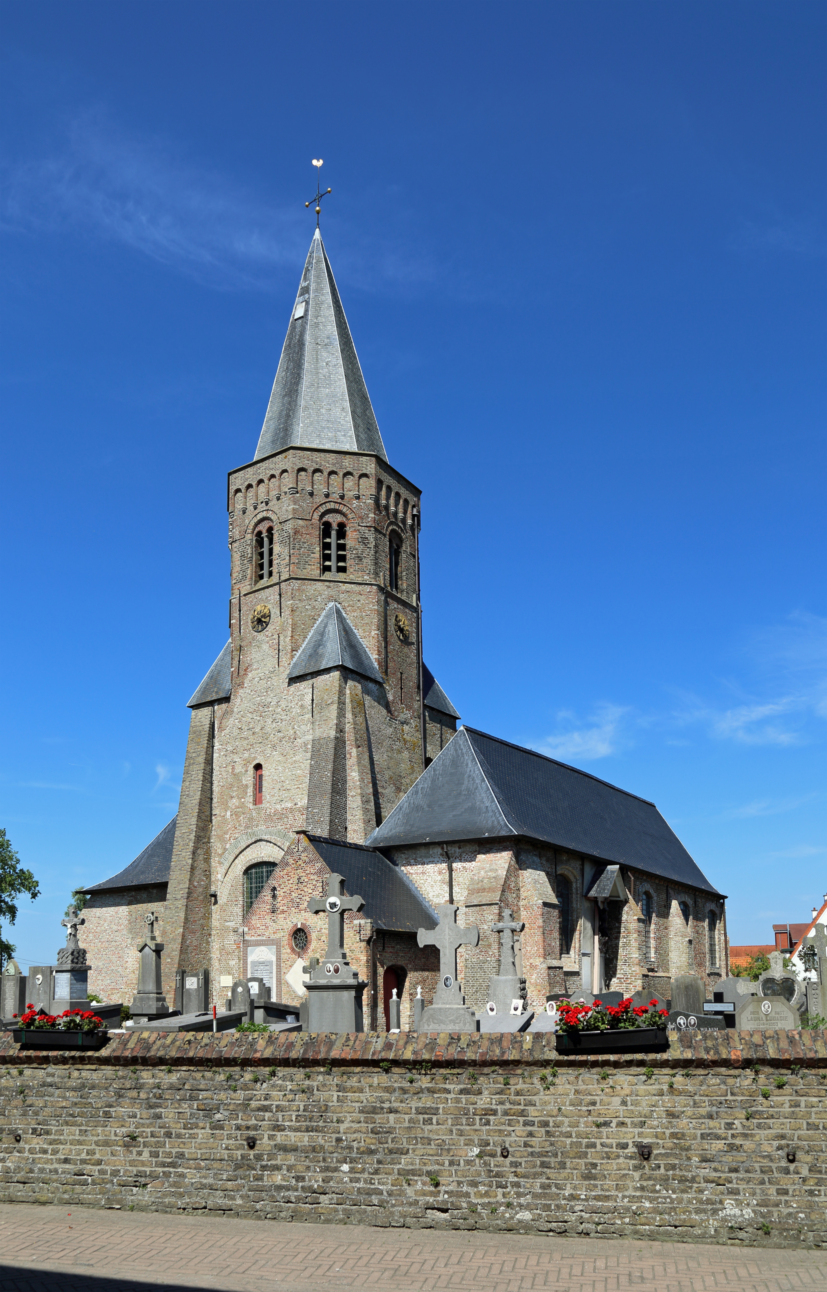 Zuienkerke (province of West Flanders, Belgium): St Michael's church